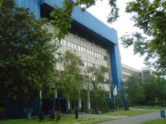 Faculty of Sciences in Novi Sad